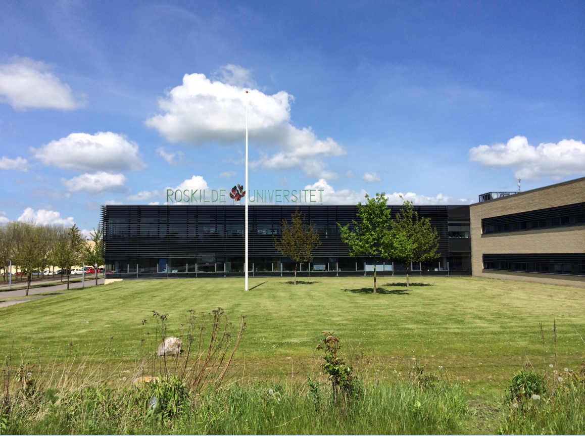 Roskilde University administration